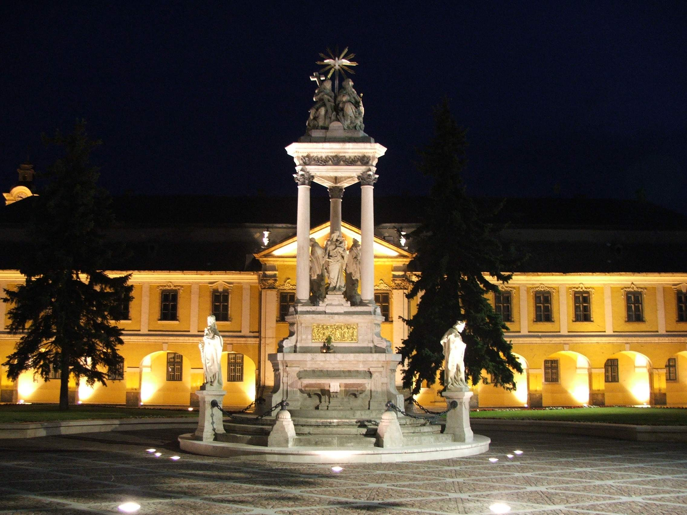 City hall of Esztergom